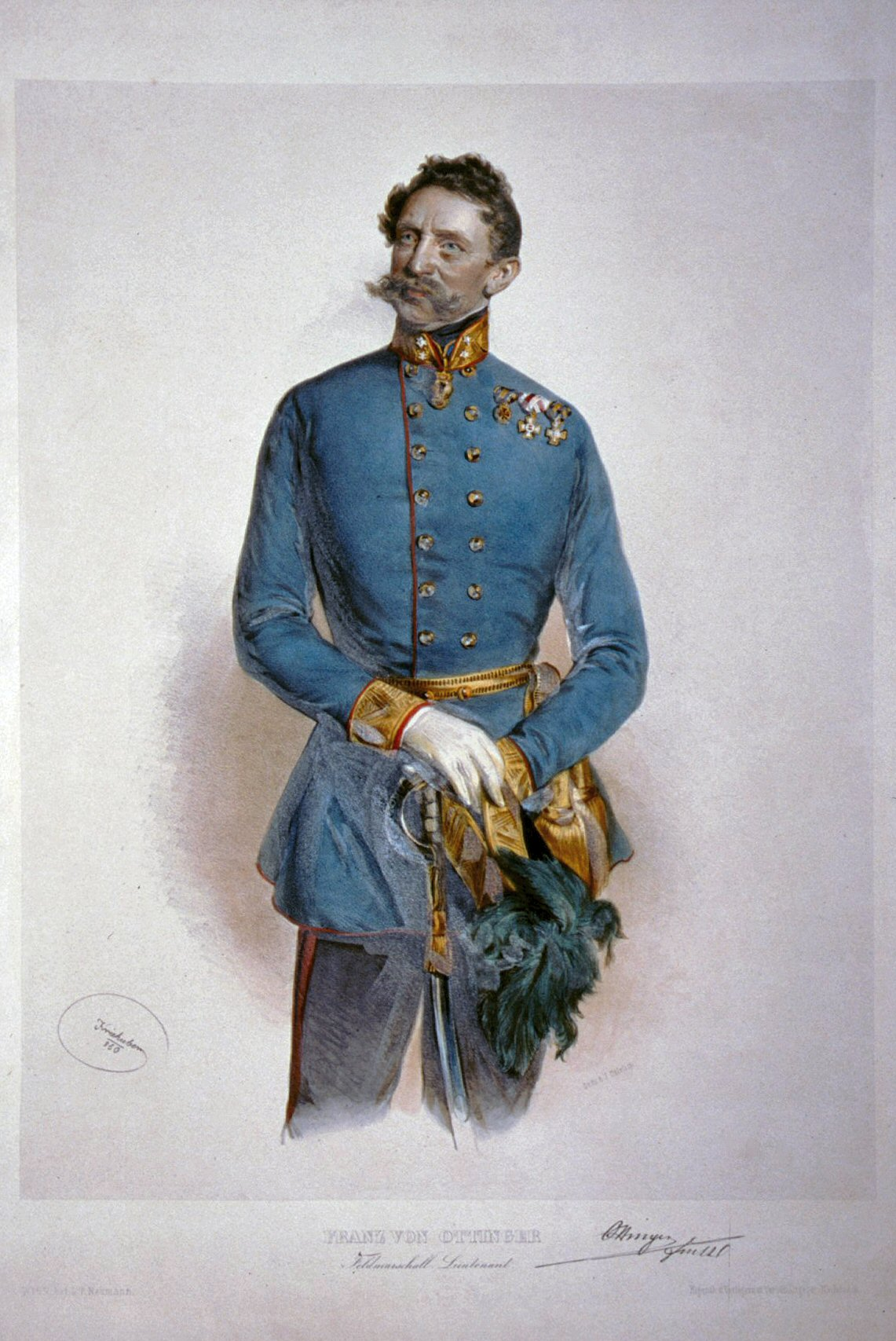 Franz von Ottinger (1792-1869), General der Kavallerie, Ritter des Maria-Theresien-Ordens.